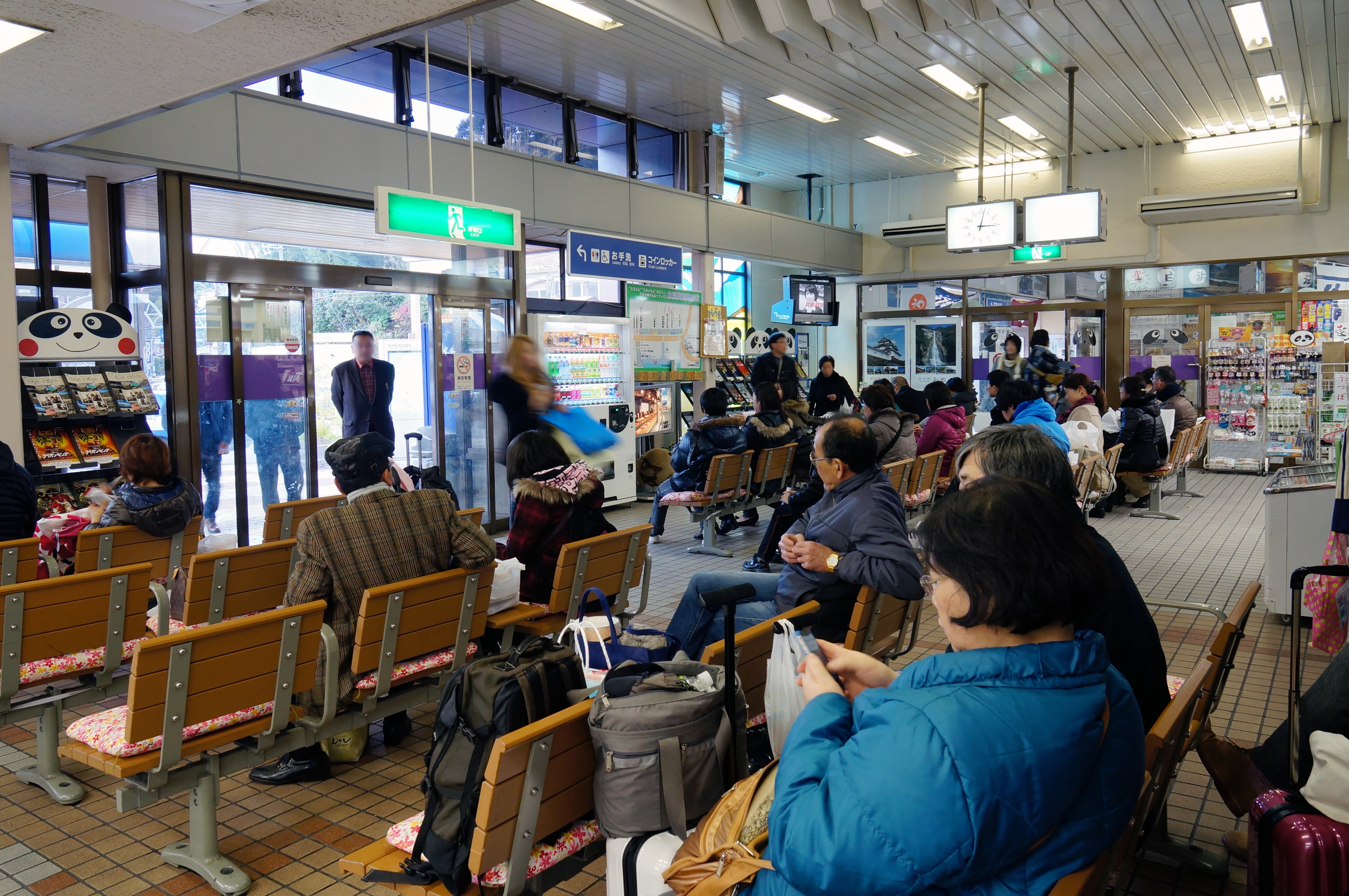 Shirahama_Station in Shirahama, Wakayama prefecture, Japan.